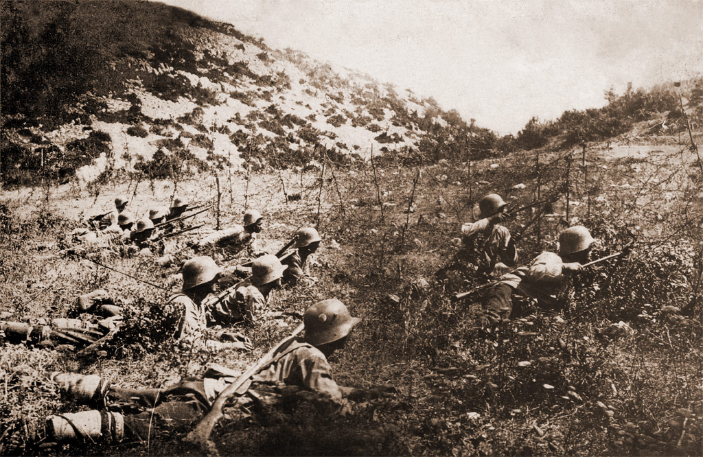 Bulgarian soldiers cutting barbed wire and advancing towards enemy positions, World War I